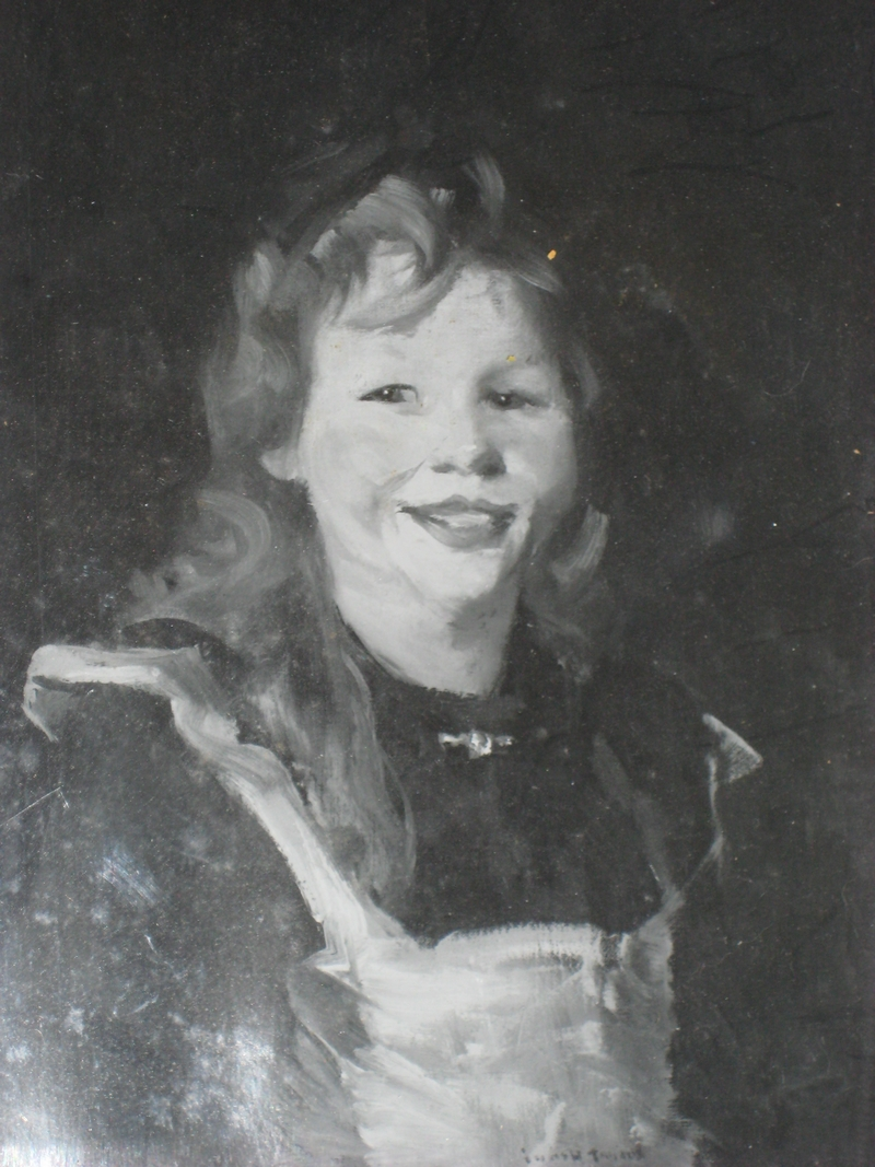 from the original photograph given to my family, I own this picture now. The girl in the picture is my great grandmother.